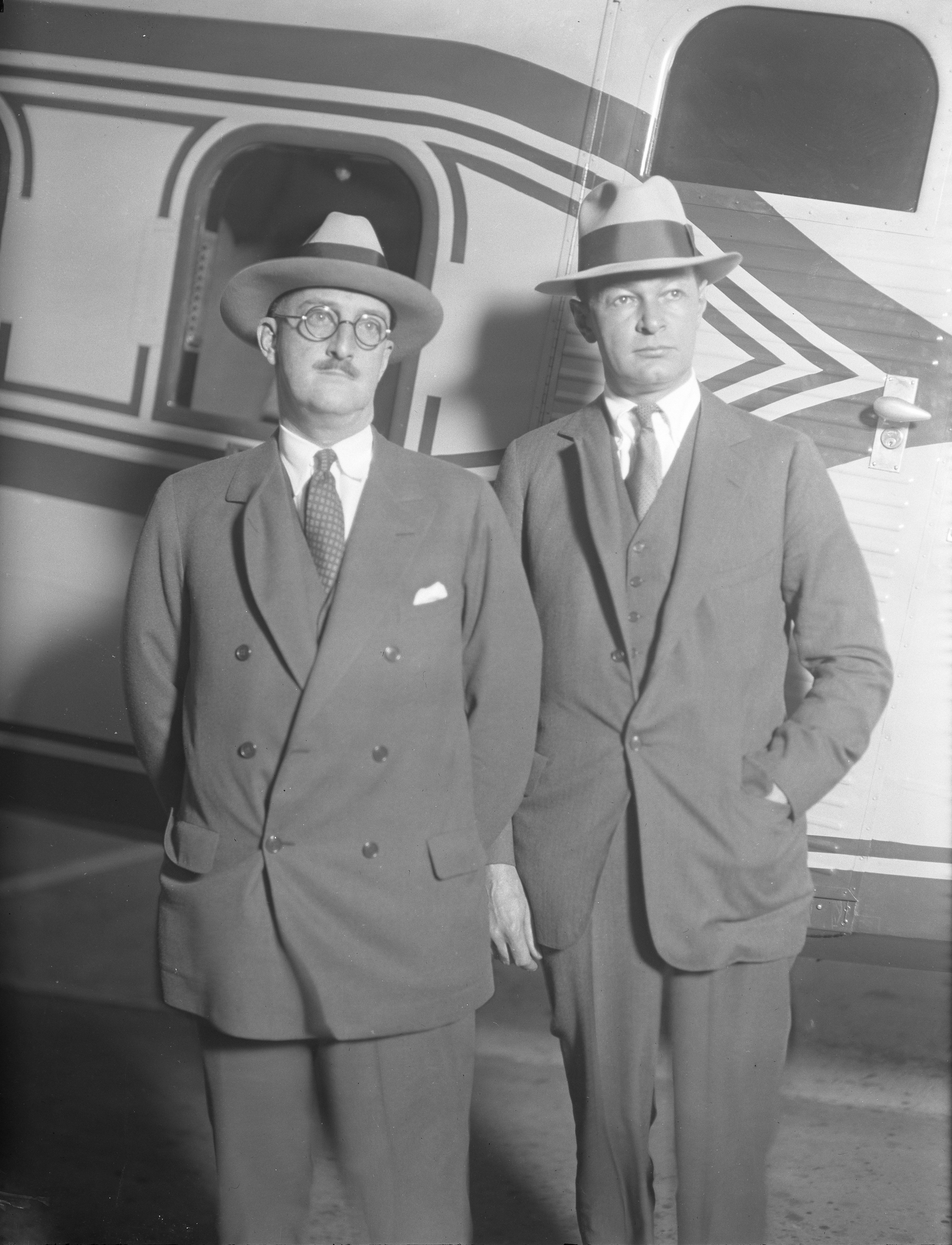 Title: William E. Boeing and Fred Rentschler standing in front of an airplane, 1929